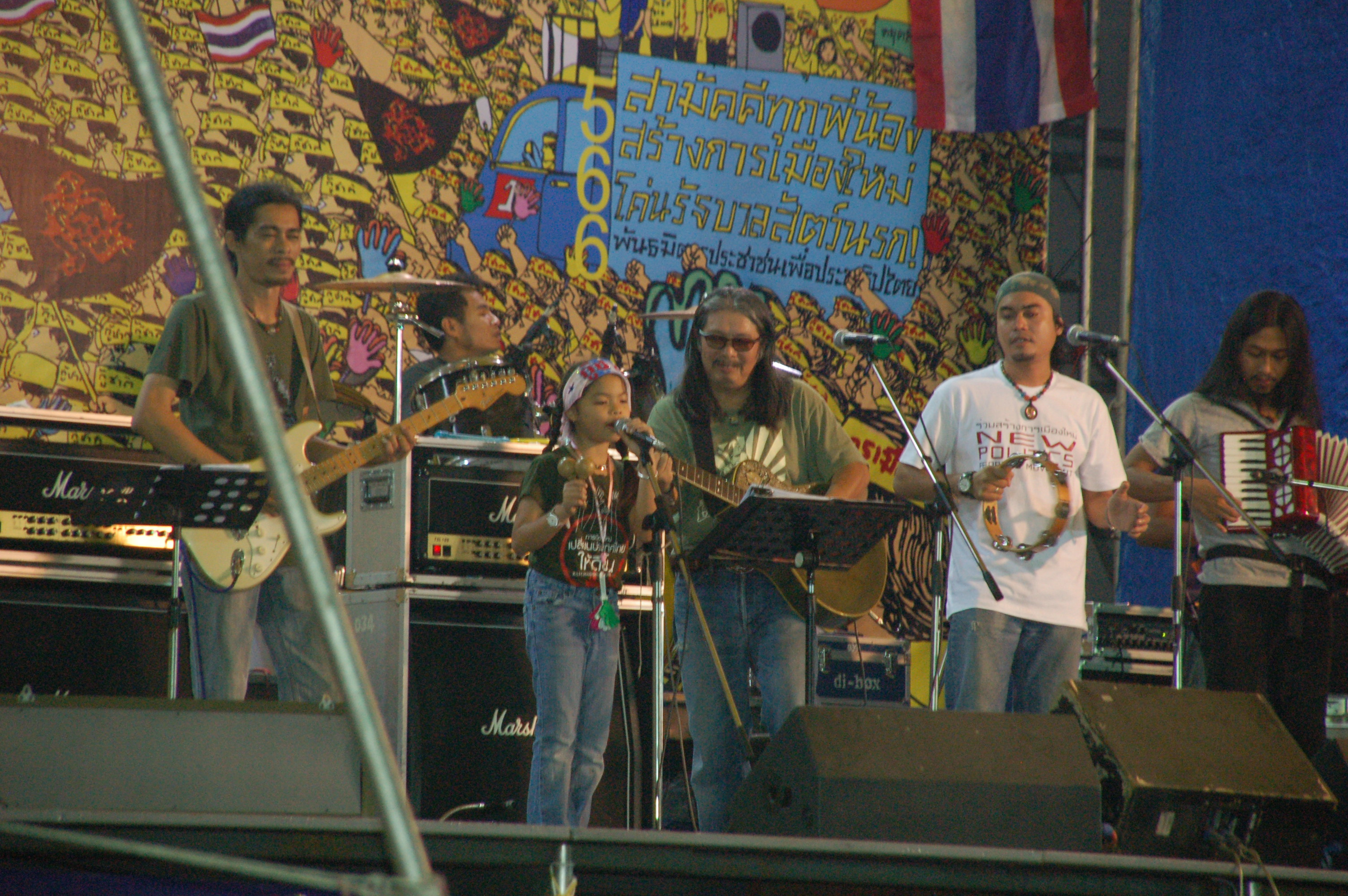 Saeng Thammada (แสงธรรมดา กิตติเสถียรพร) on stage with his little daughter Saeng Raya in People's Alliance for Demecracy protest at the Thai Government House. Photo taken on October 21, 2008